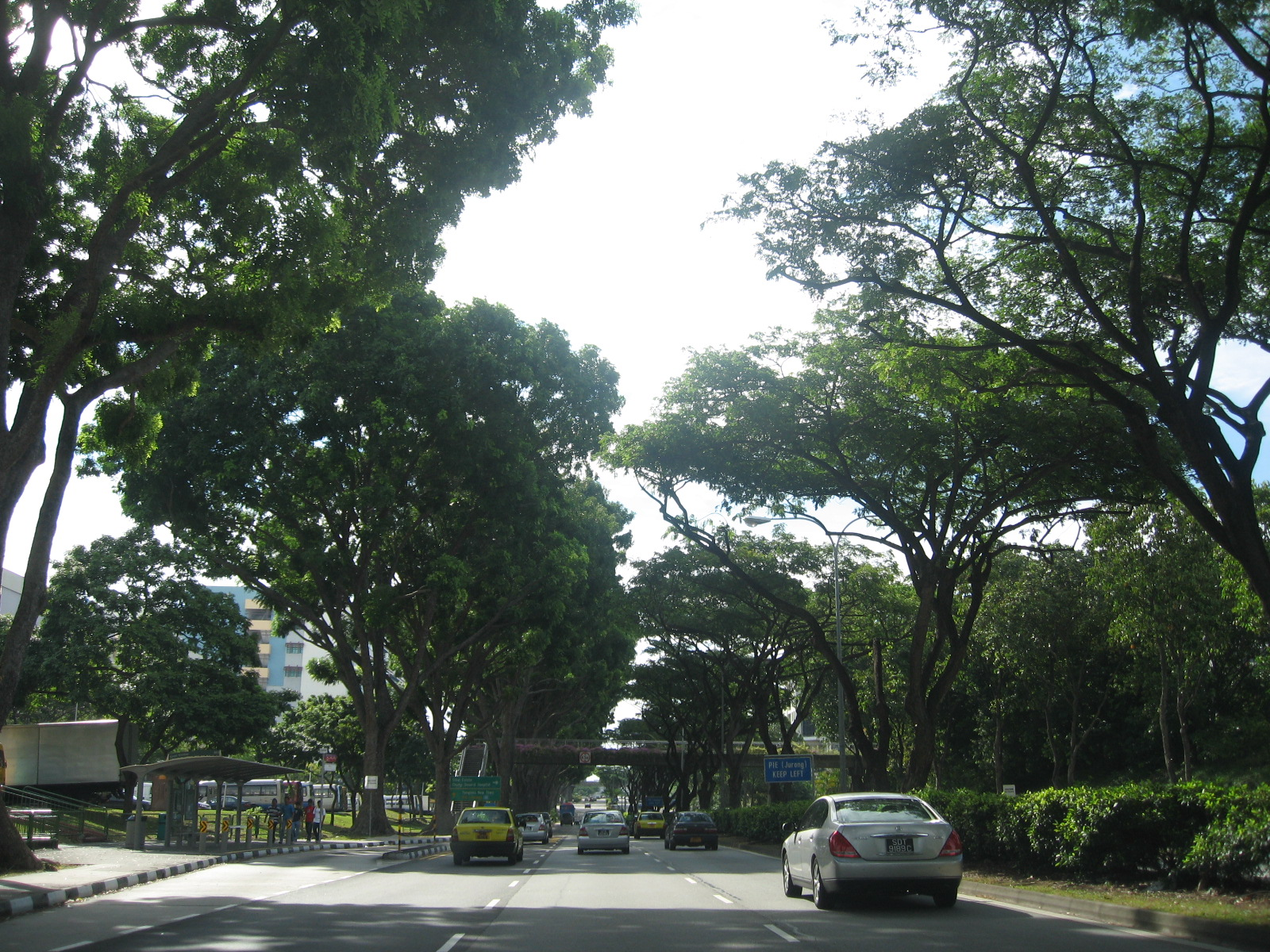 Simei Avenue.